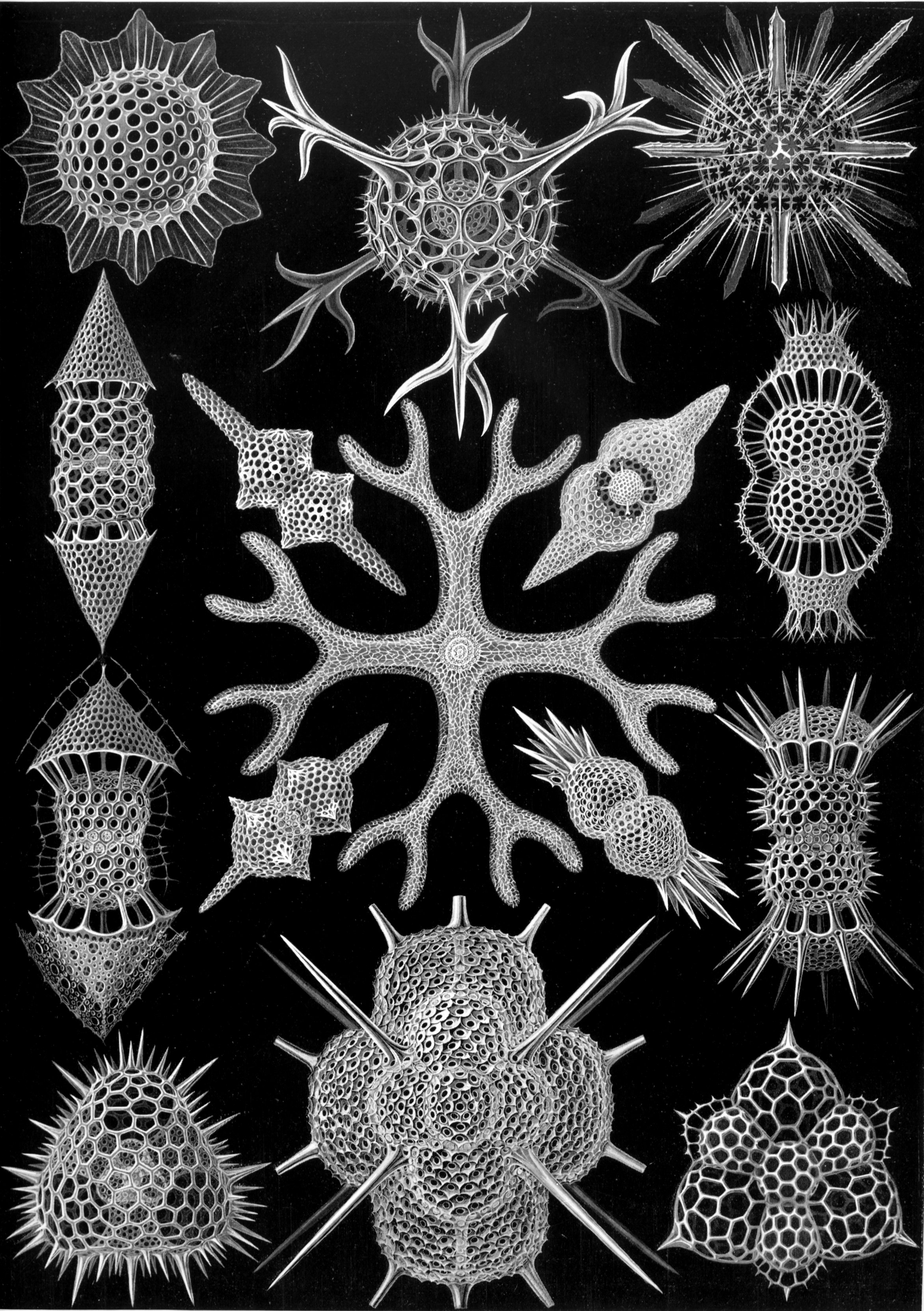 See here for index to numbers Astrosphaera stellata (Haeckel) = Astrosphaera sp.? Hexancistra quadricuspis (Haeckel) = Hexancistra quadricuspis (Haeckel, 1887) Cannartidium mammiferum (Haeckel) = Didymocyrtis mammifera (Haeckel, 1887) Cannartidium mastophorum (Haeckel) = Artiscinae sp.? Cannartiscus amphiconiscus (Haeckel) = Cannartus violina Haeckel, 1887? Cyphinus amphilophus (Haeckel) = Cyphinus amphilophus Haeckel, 1887 Panartus diploconus (Haeckel) = Panartus diploconus Haeckel, 1887 Peripanartus amphiconus (Haeckel) = Peripanartus amphiconus Haeckel, 1887 Panicium coronatum (Haeckel) = Panicium coronatum Haeckel, 1887 Peripanicium amphicorona (Haeckel) = Peripanicium amphicorona Haeckel, 1887 Trochodiscus stellaris (Haeckel) = Trochodiscus stellaris Haeckel, 1887 Dicranastrum bifurcatum (Haeckel) = Tetracranastrum bifurcatum (Haeckel, 1887) Archidiscus pyloniscus (Haeckel) = Archidiscus sp.? Pylodiscus triangularis (Haeckel) = Hexapyle cf. dodecantha Haeckel, 1887 Tholoma metallasson (Haeckel) = Cubotholus octoceras Haeckel, 1887?